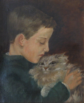 Portrait of Henry L. Stimson with a cat, painted by the subject's aunt. An early work while the artist studied with William Merritt Chase; she herself later became the subject of a Chase portrait.